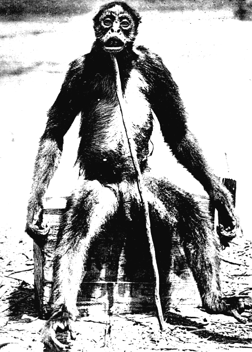 De Loys' Ape